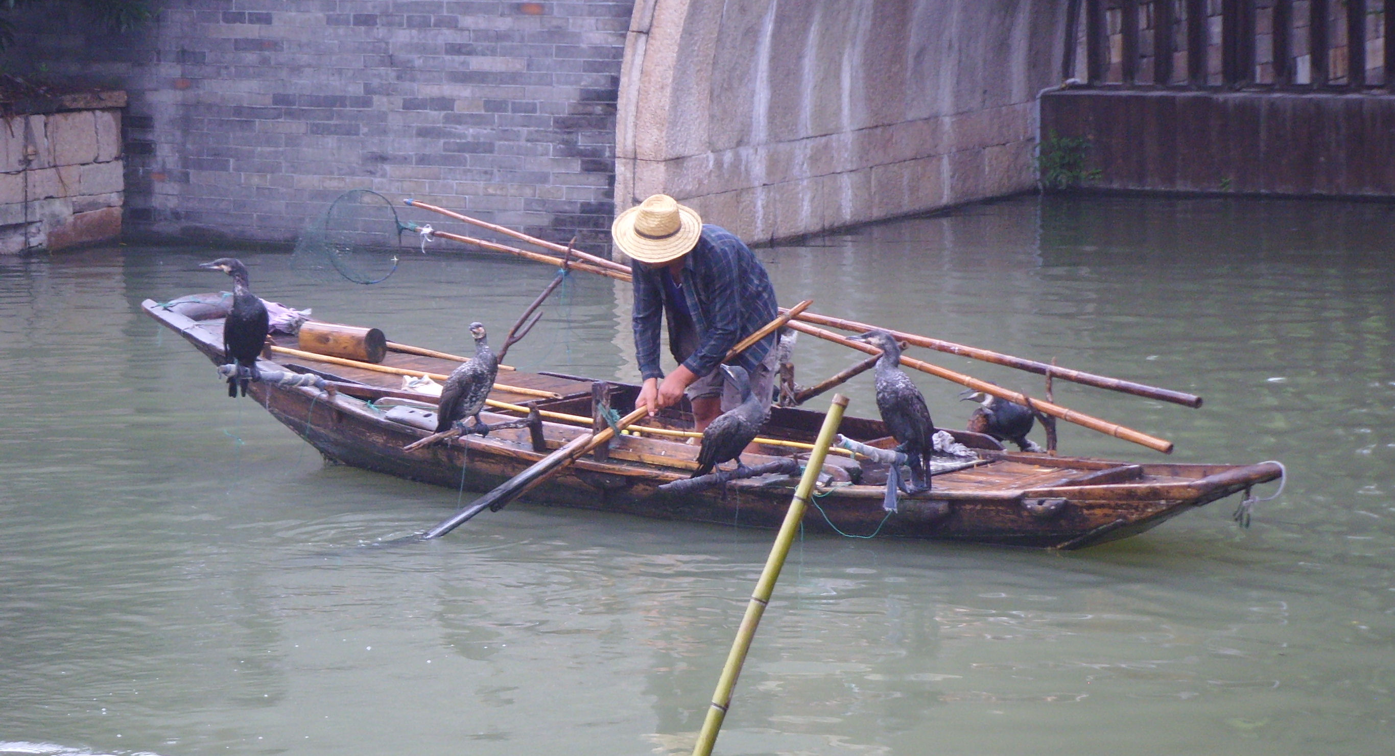 Wuzhen Xizha, Tongxiang, Zhejiang, P. R. of China: Trained cormorants